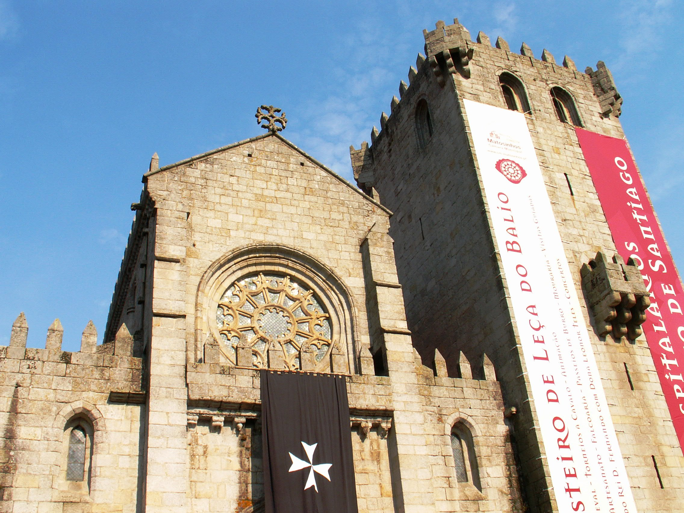 Dressing for tonight